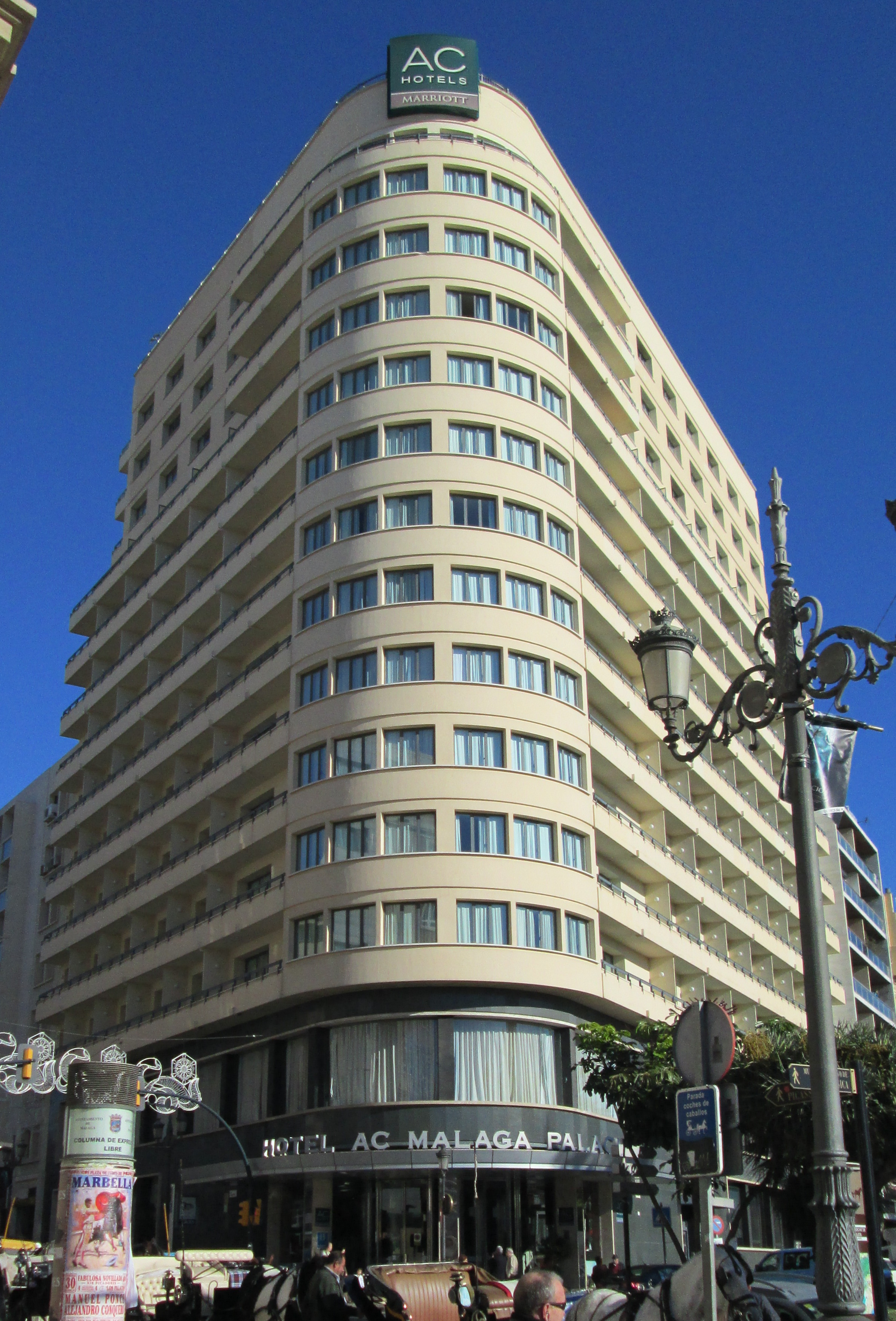 AC Hotel Málaga Palacio (Málaga, Spain).